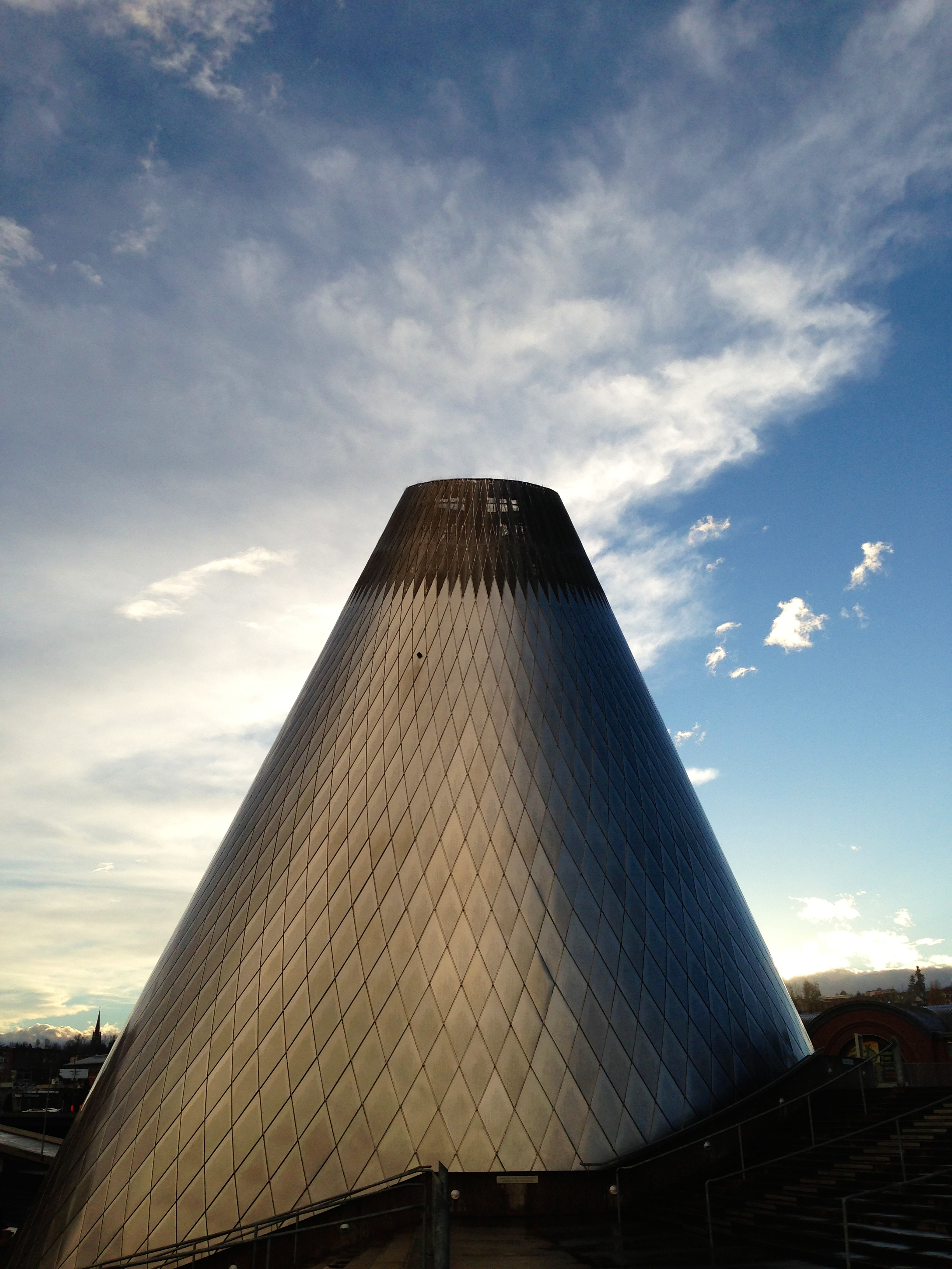 The Hot Shop - glass blowing cone building of the Museum of Glass